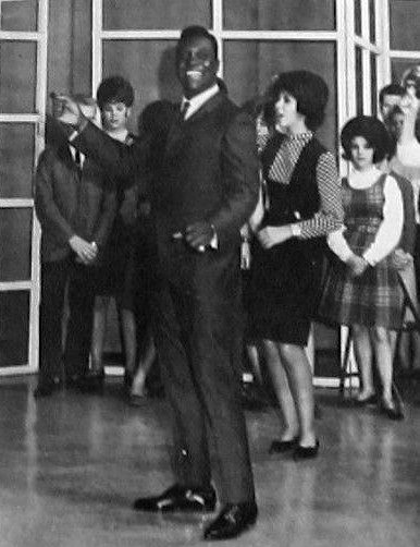 Photo of the singer, Johnny Thunder.